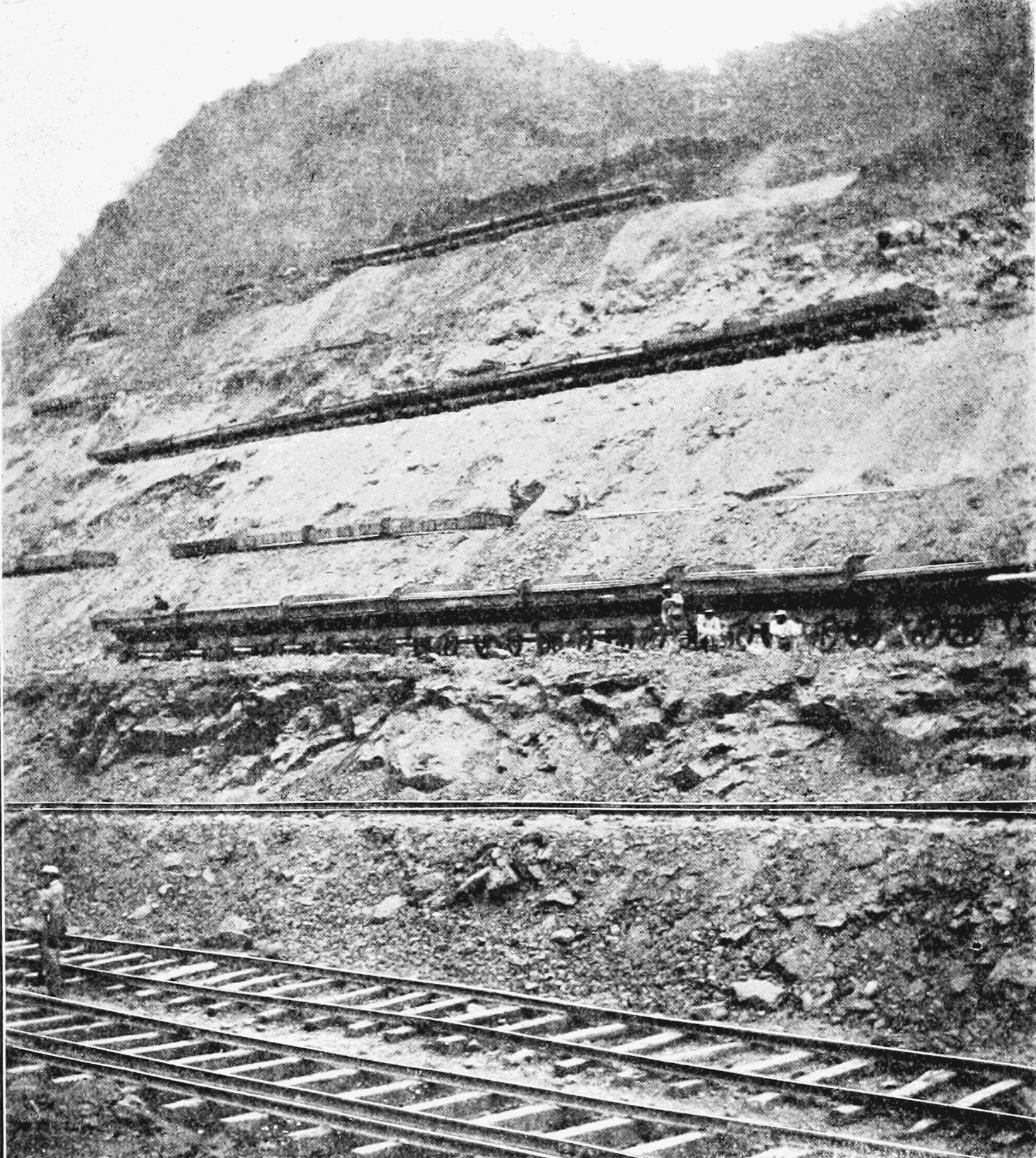 The culebra cut